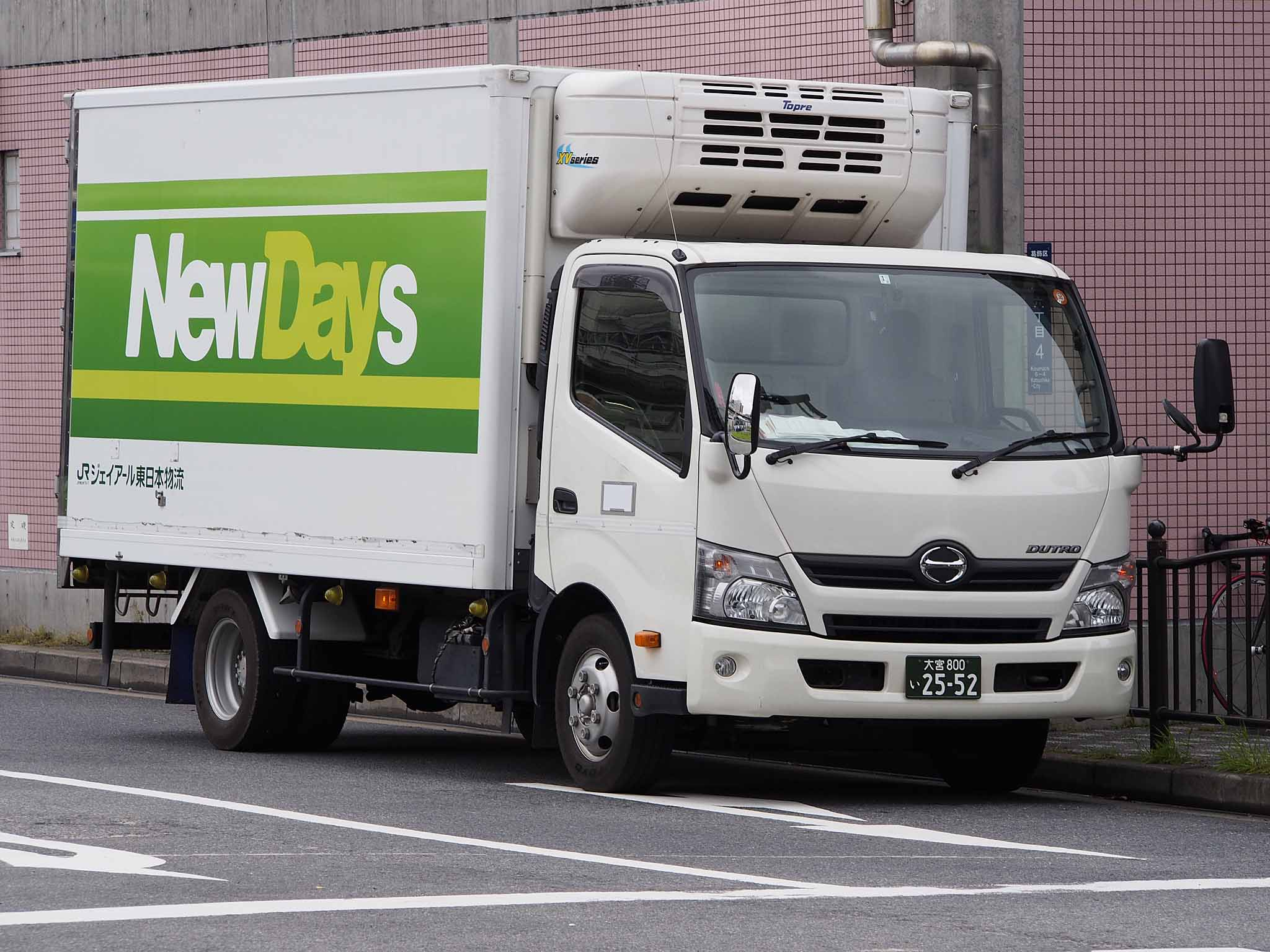 Hino Dutro, fleet of JR East Logistics, marked NewDays Logo, at Kanamachi Station in Katsushika Ward, Tokyo, Japan. License plate: STO800 I2552